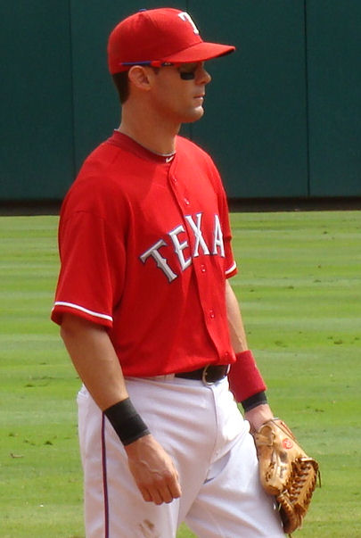 Michael Young, third baseman